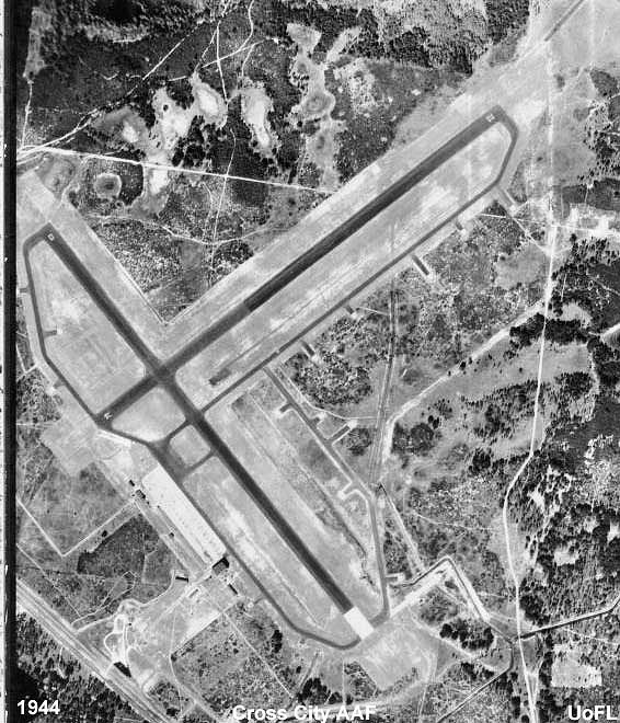 Photo of Cross City Army Air Field, 1944 Florida